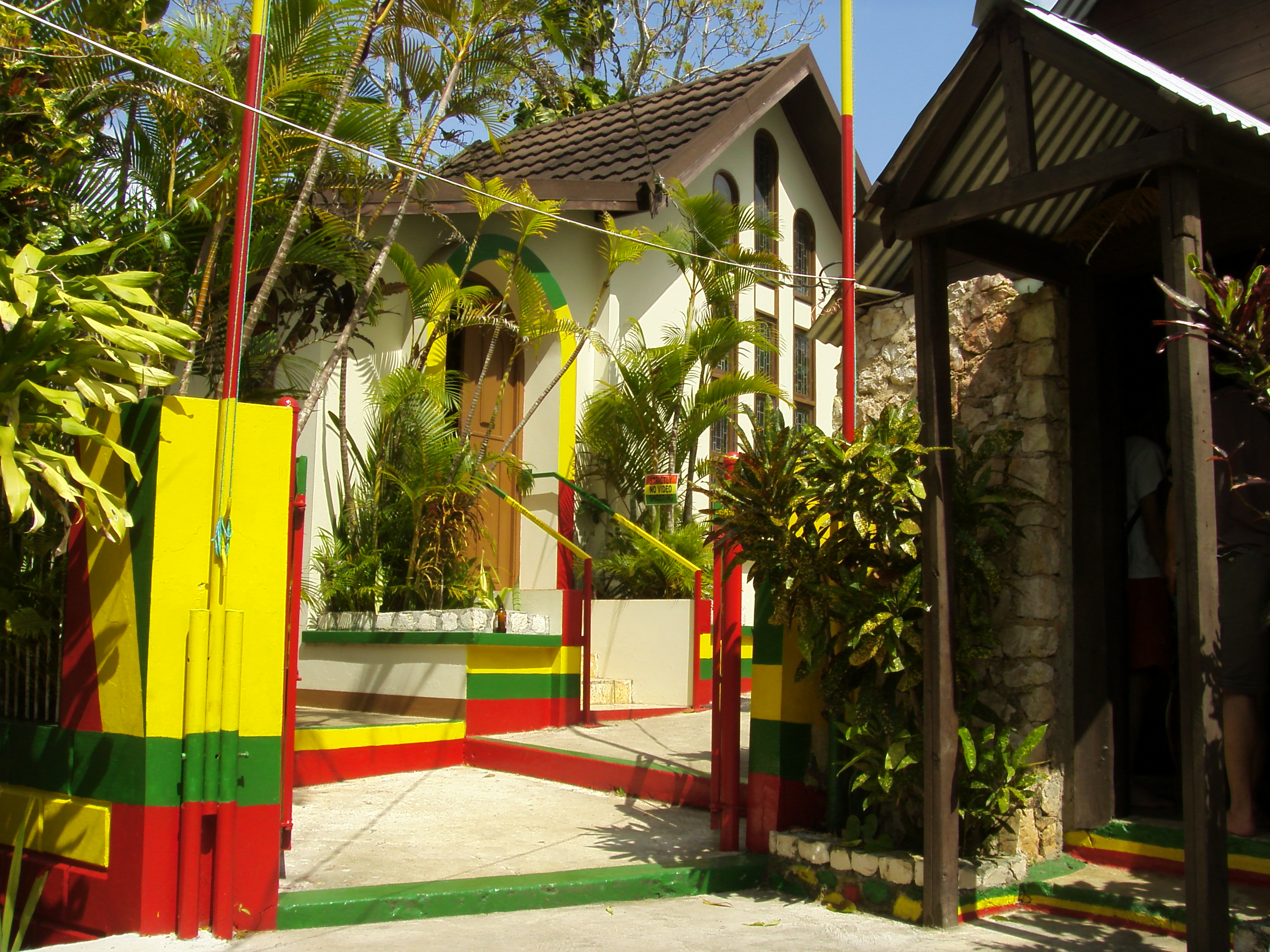 Access to the grave (left) and the house (right) of Bob Marley at Nine Mile